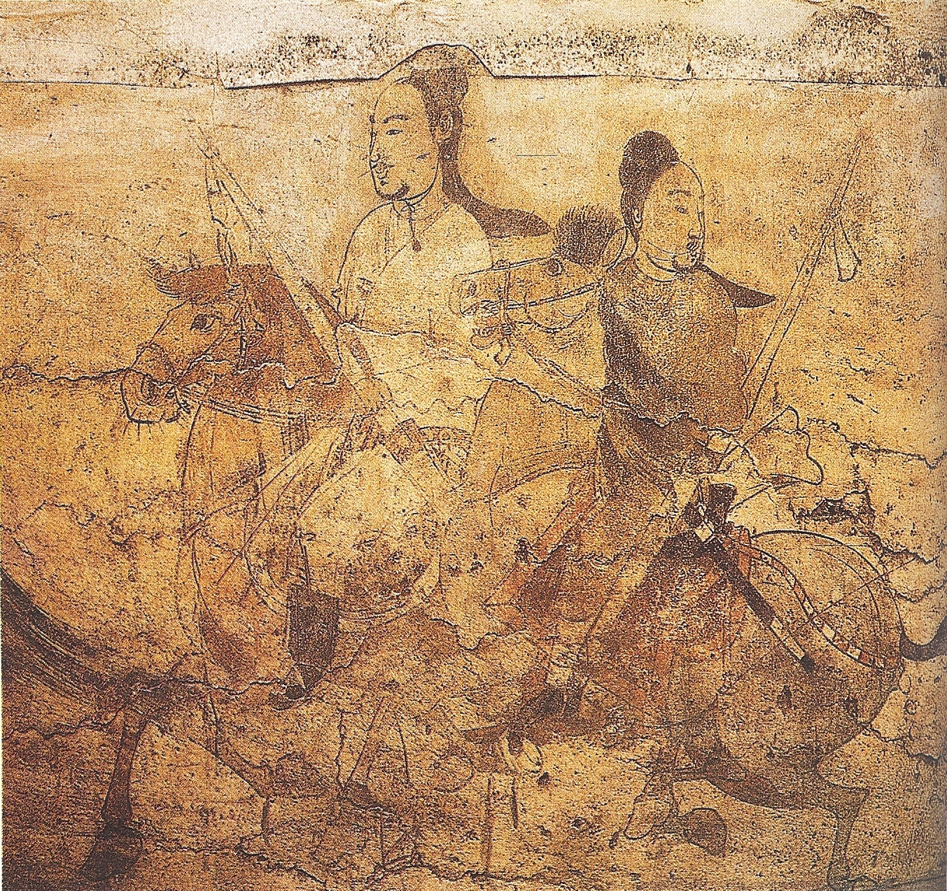 Riders on horseback, from a wall painting in the tomb of Lou Rui at Taiyuan, Shanxi province, China, dated to the Northern Qi Dynasty (550–577 AD)